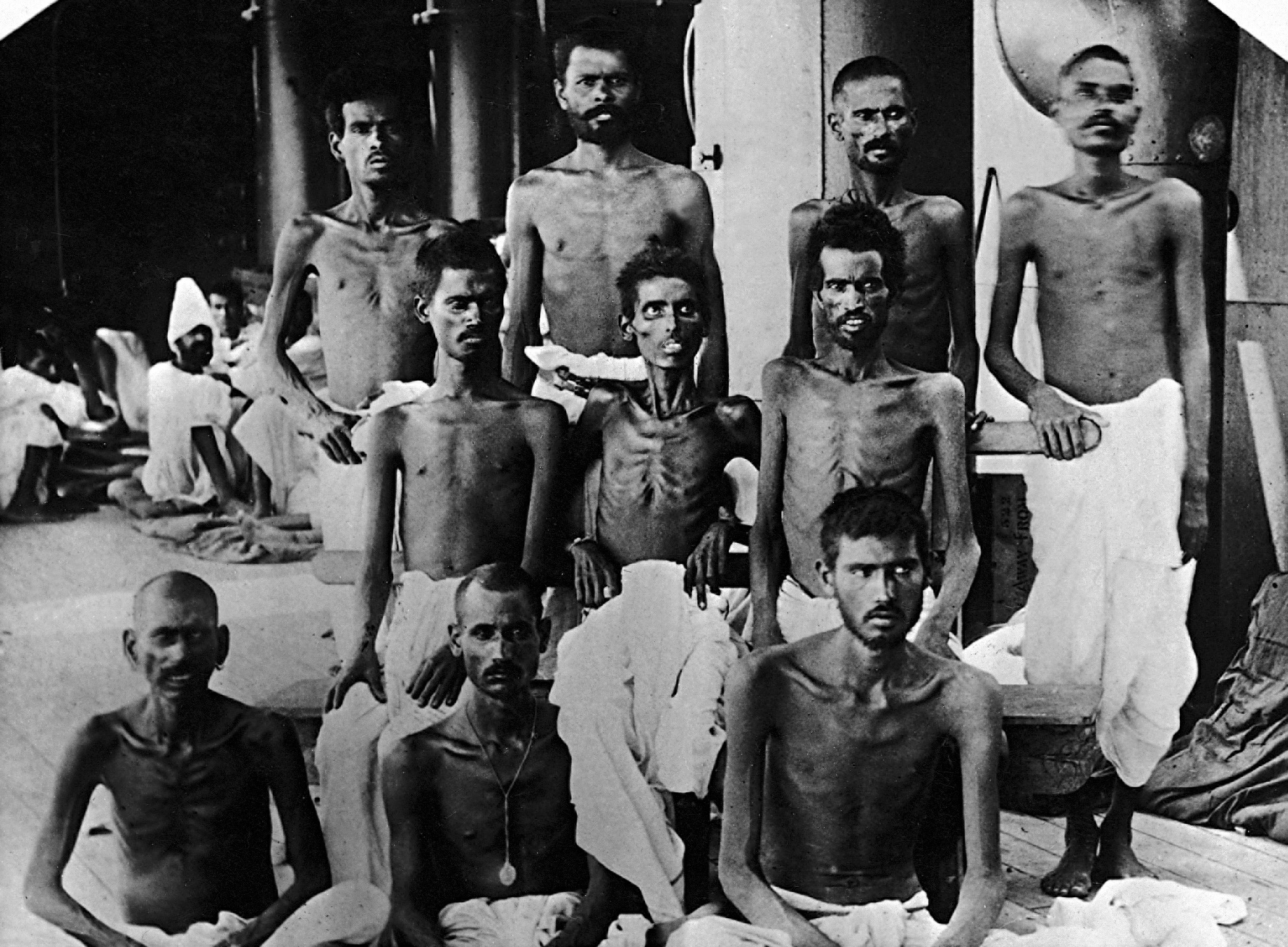 On 15 December 1915 a British expeditionary force was besieged by a strong German-led Turkish army at Kut Al Amara on the Tigris River. The garrison, two thirds of which was Indian, surrendered on 29 April 1916. During the ensuing period of captivity in Anatolia many died from heat, disease and neglect. These emaciated men were photographed after they had been liberated during an exchange of prisoners.